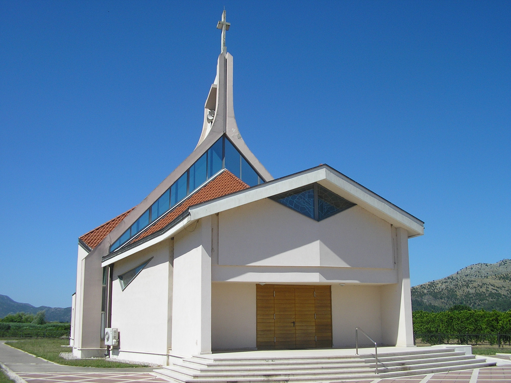 Saint Francis of Assisi church in Metković